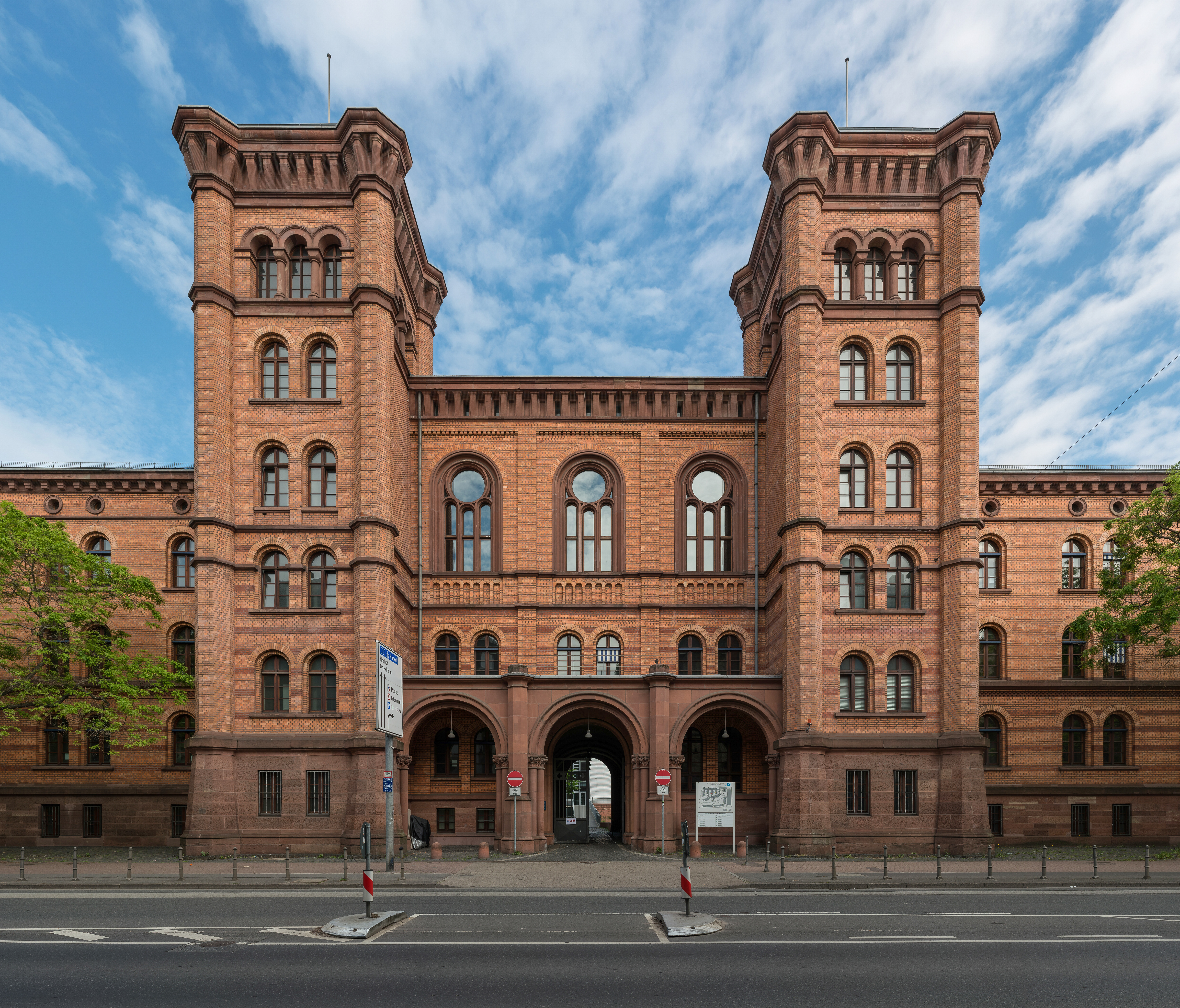 A southeast view of the central gate of the Gutleutkaserne, Frankfurt am Main